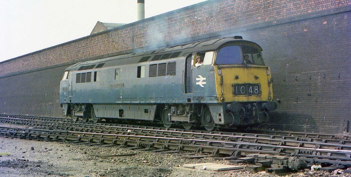 Class 52 diesel hydraulic locomotive No. D1048 "Western Lady" captured at Old Oak Common on 13 July 1976. Camera: Olympus Pen F Half Frame SLR.